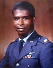 Robert Henry Lawrence, Jr. - USAF Astronaut First African-American selected as an astronaut. (USAF photo) from